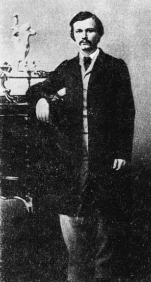 Russian writer Nikolay Vasilyevich Uspensky (1837-1889)